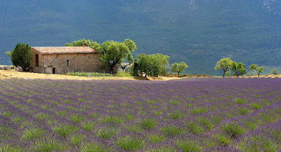 Farm houses and lavenders compose a typical landscape of Provence, France